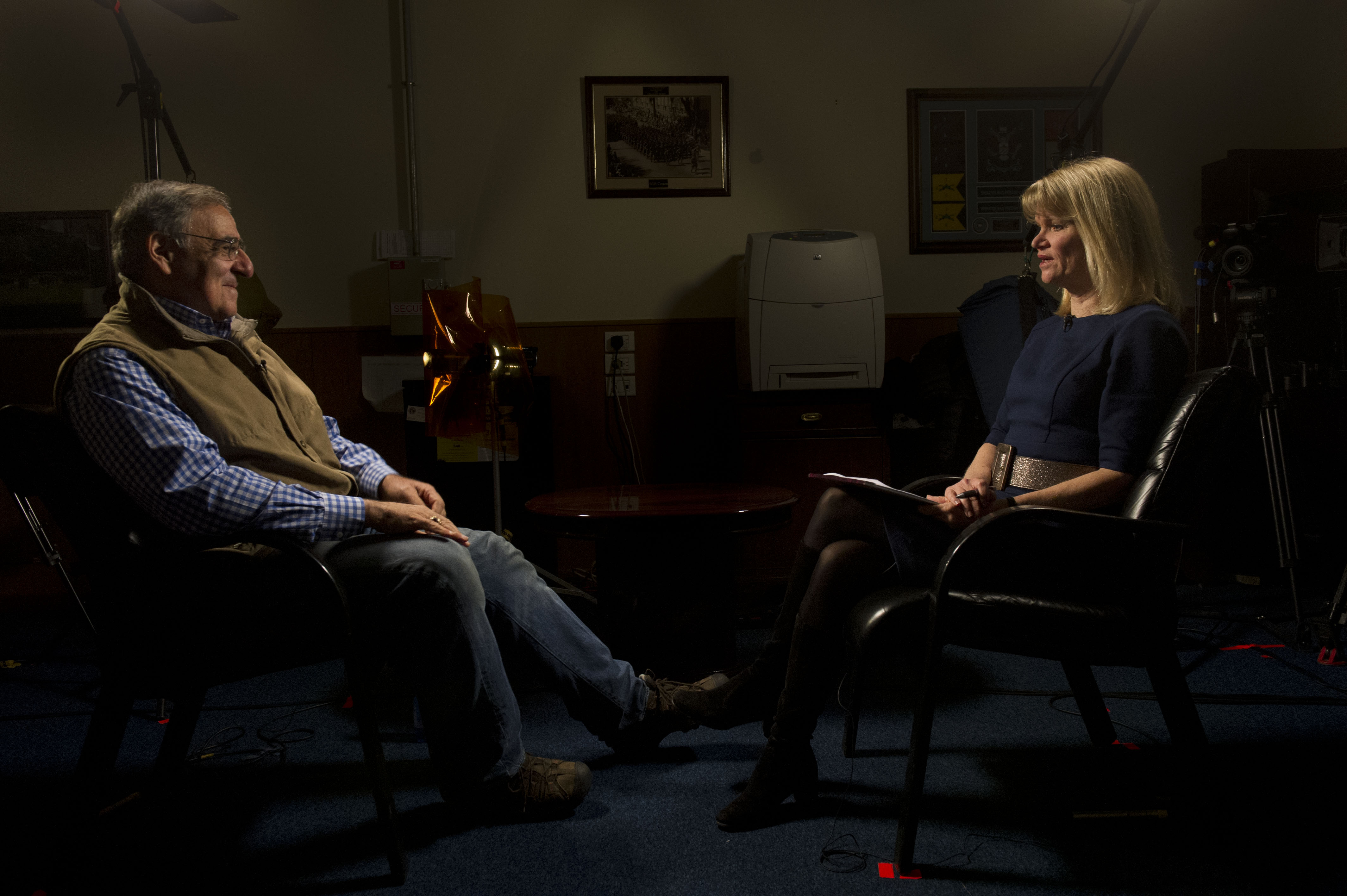 Secretary of Defense Leon E. Panetta is interviewed by Martha Raddatz, with ABC News, at U.S. Army Garrison Vicenza, Italy, Jan. 17, 2013. Panetta is on a six day trip to Europe to visit with foreign counterparts and troops in the area.